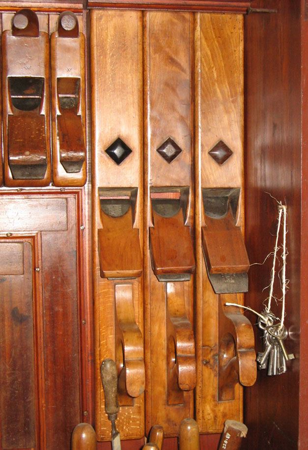 3 jointers. Photo from "Kajsergaarden", Randers. This file was made by B. M. Askholm, Please credit this: B. Askholm foto, 2006 An email to B. Mathias at baskholm(--) would be appreciated too.